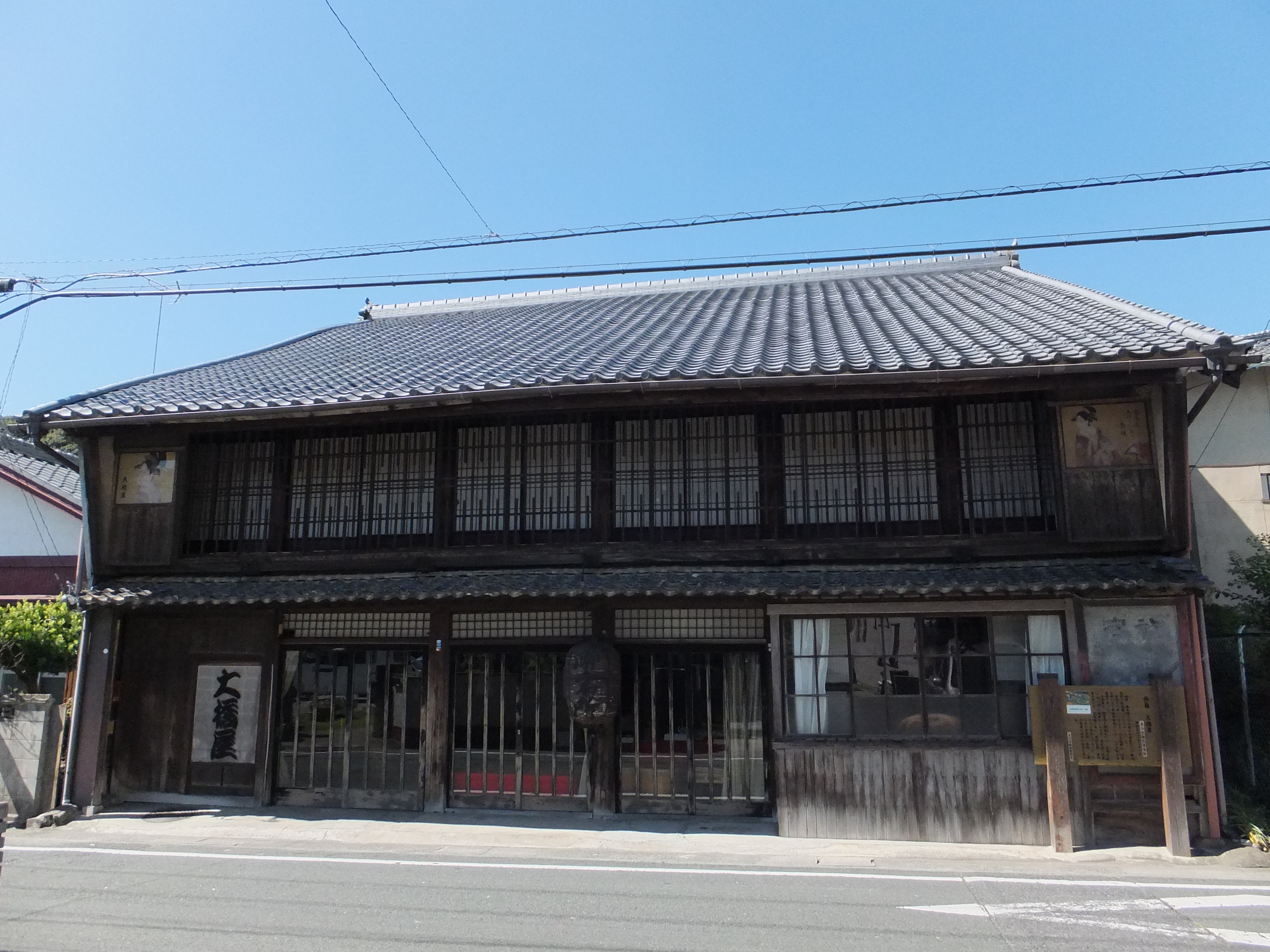 Hatago "Oohashiya" (大橋屋), located at Benisato, Akasaka-cho, Toyokawa, Aichi, Japan